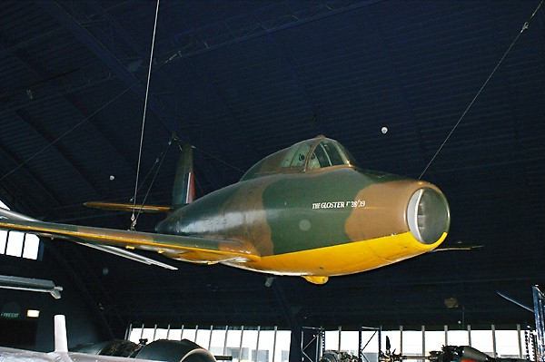 Gloster E.28/39, Britain's first jet, powered by Sir Frank Whittle's jet, at the Science Museum, South Kensington, 11/08.